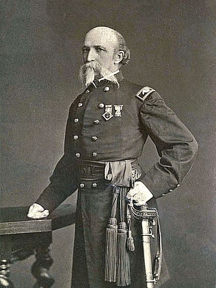 Photograph of Colonel John Mason Loomis